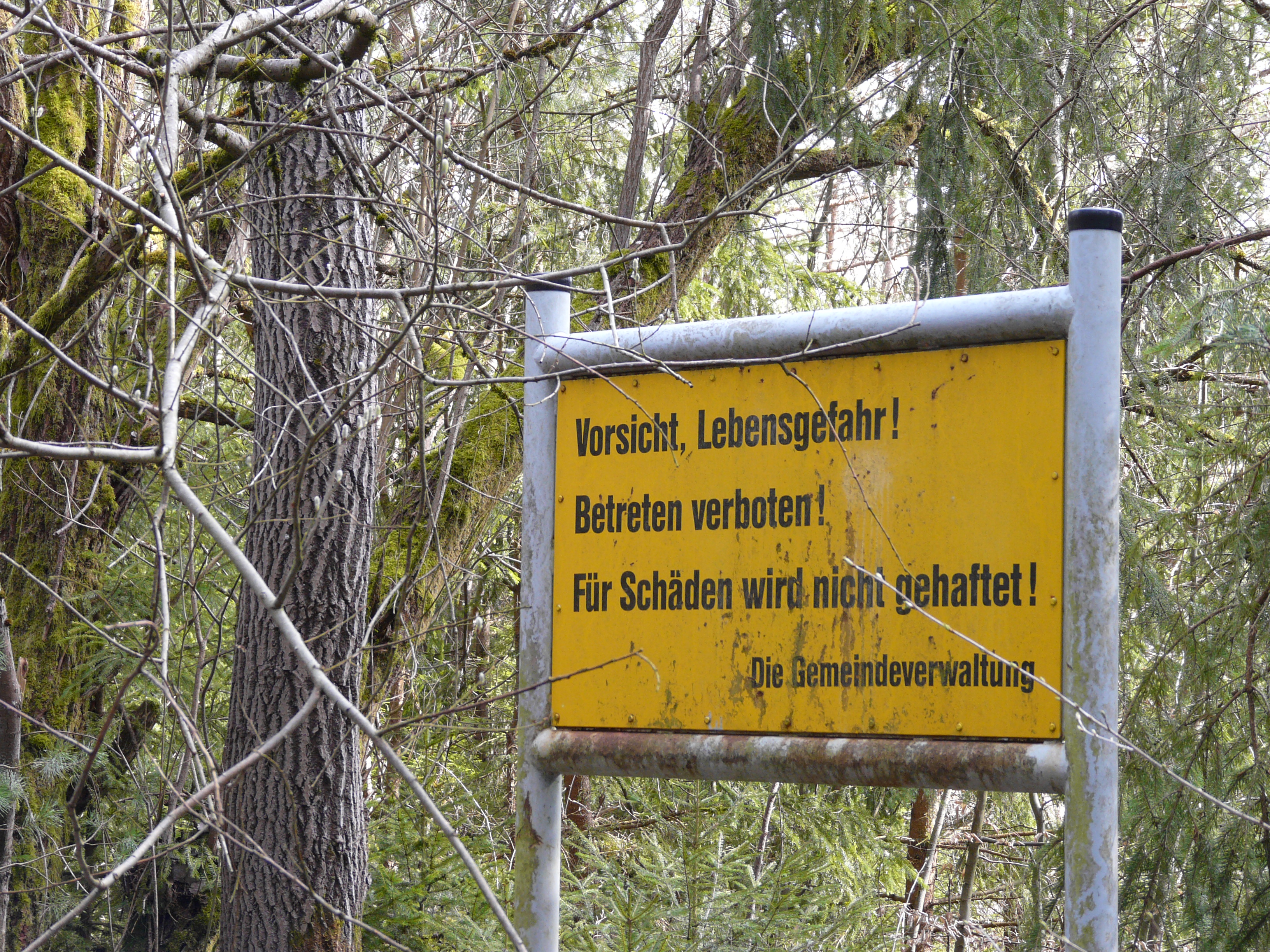 Warning sign in the Mühldorfer Hart, a forest near Mühldorf, concerning the ruins of a nazi bunker located there. The sign says: Caution, danger of life! No trespassing! No liability for any damage